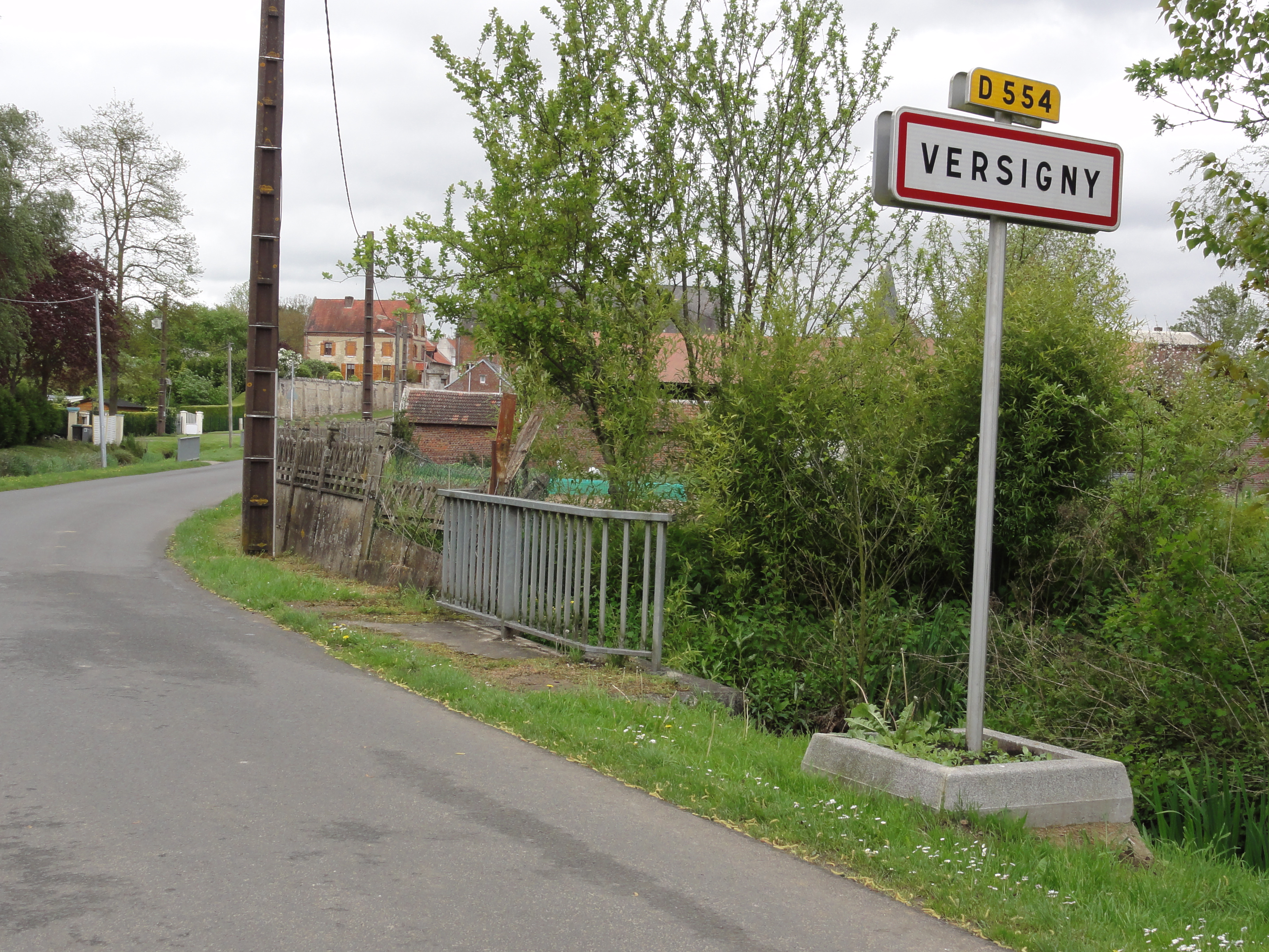 Versigny (Aisne) city limit sign